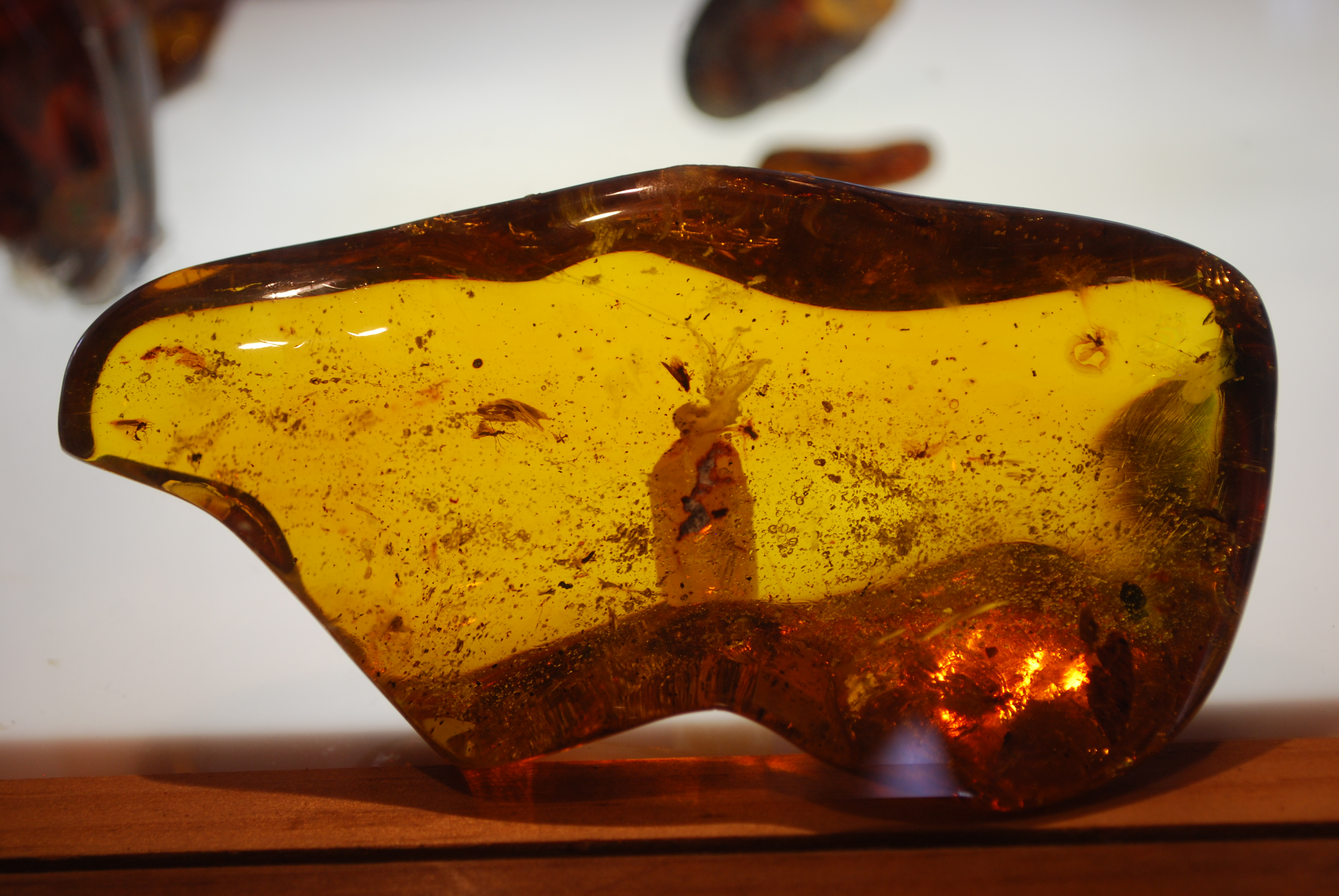 Piece of amber with fossil at the Museum of Amber in San Cristobal de las Casas, Chiapas, Mexico